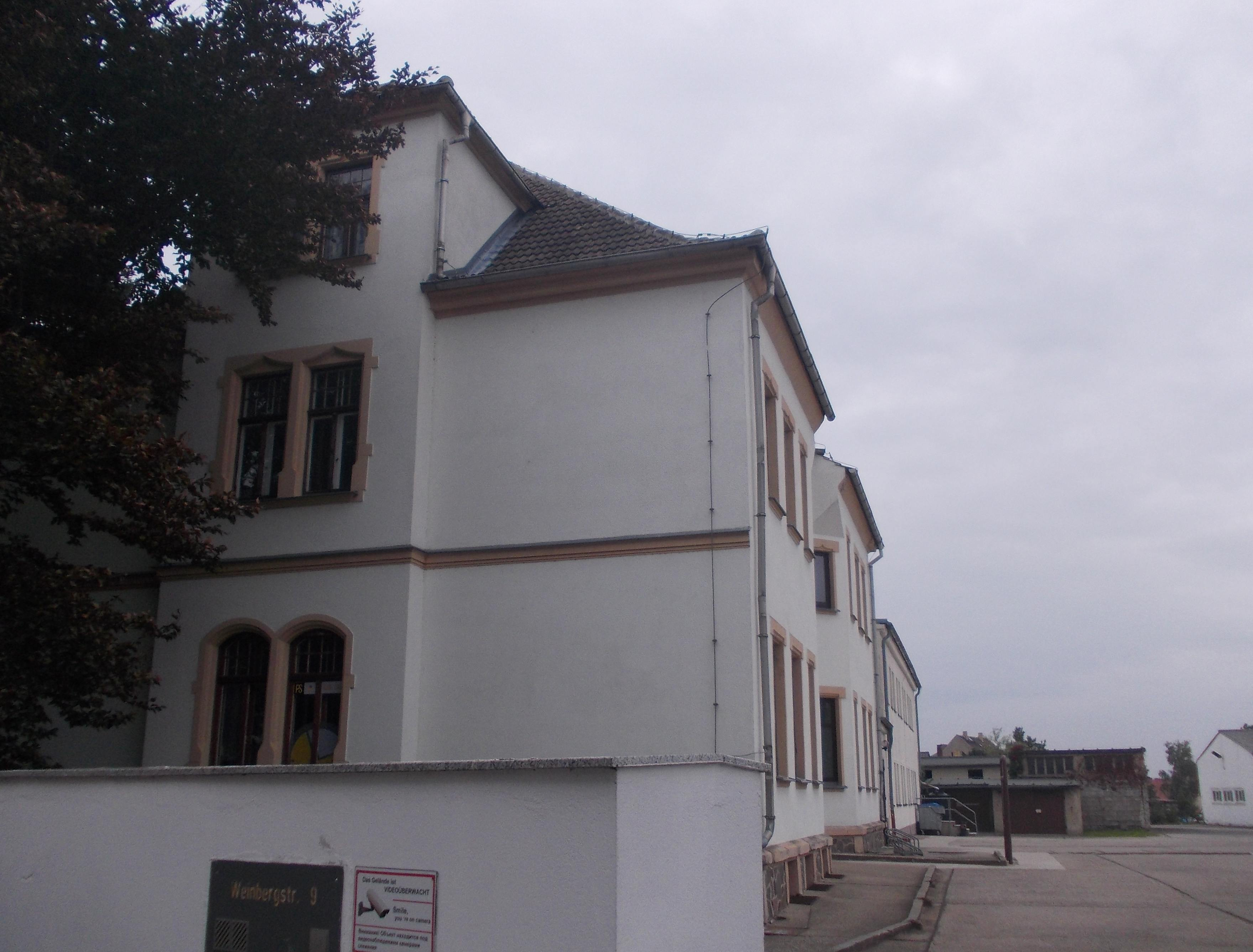 Berg manor house in Eilenburg (Nordsachsen district, Saxony)